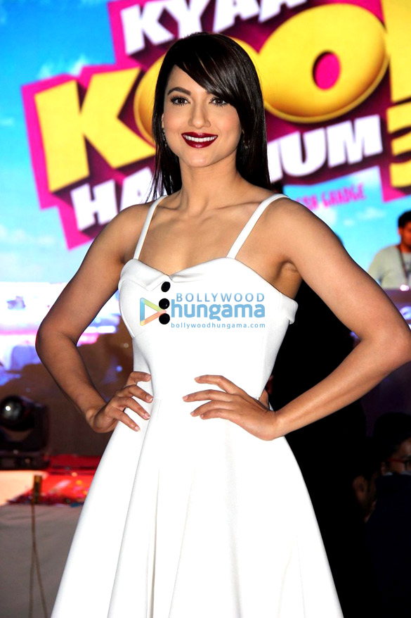 Gauhar Khan promotes Kyaa Kool Hain Hum 3